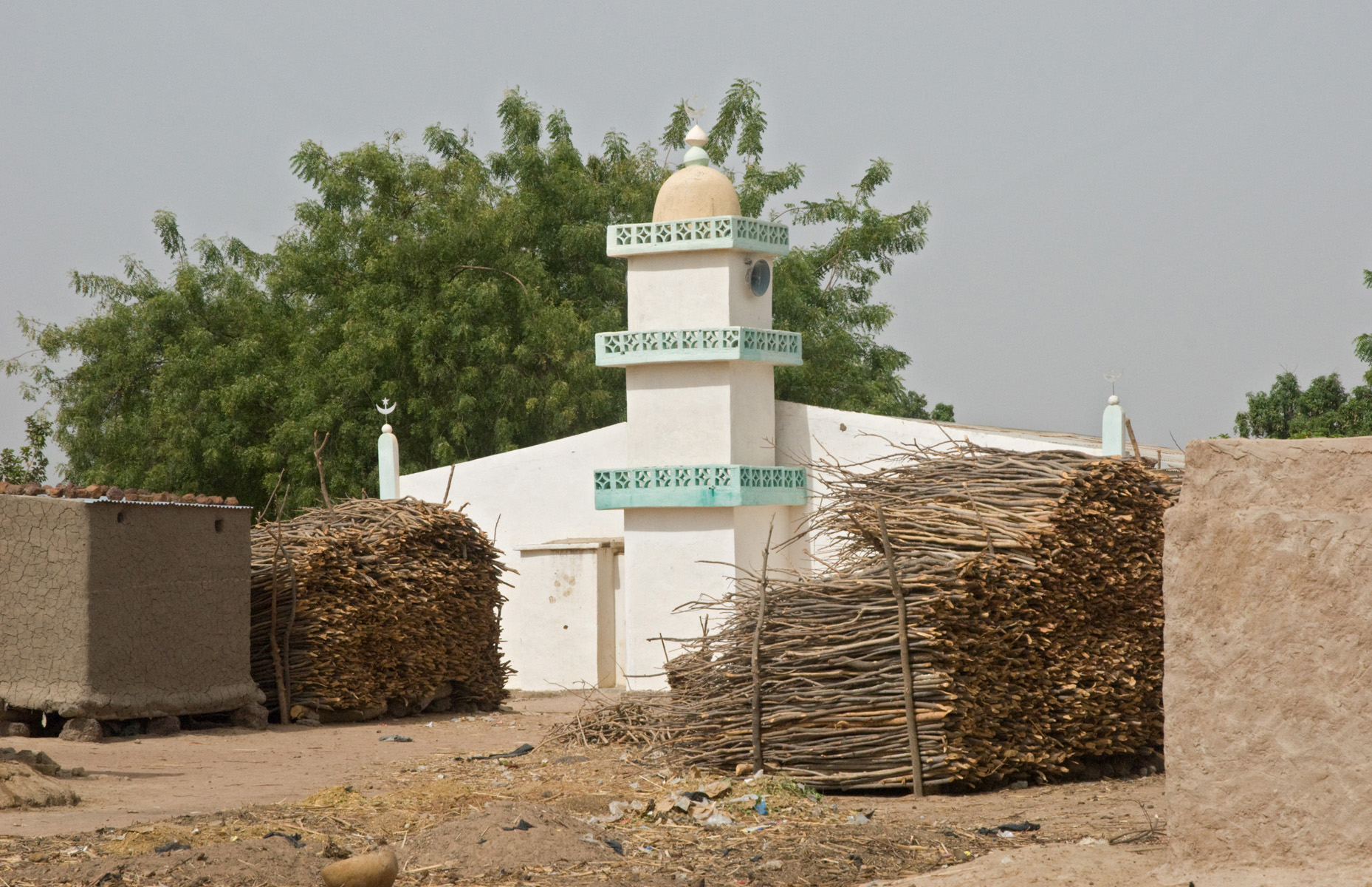 Mosque in N'Tiesso village (April 2017)